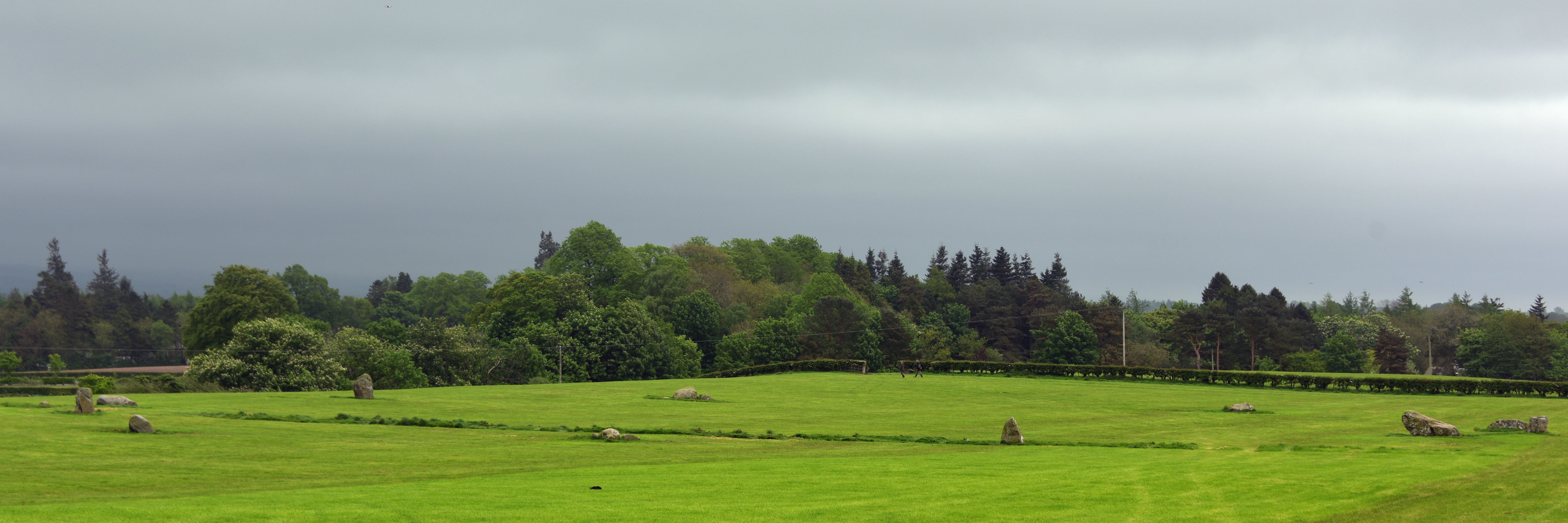 A prehistoric stone circle near Dumfries, Scotland.